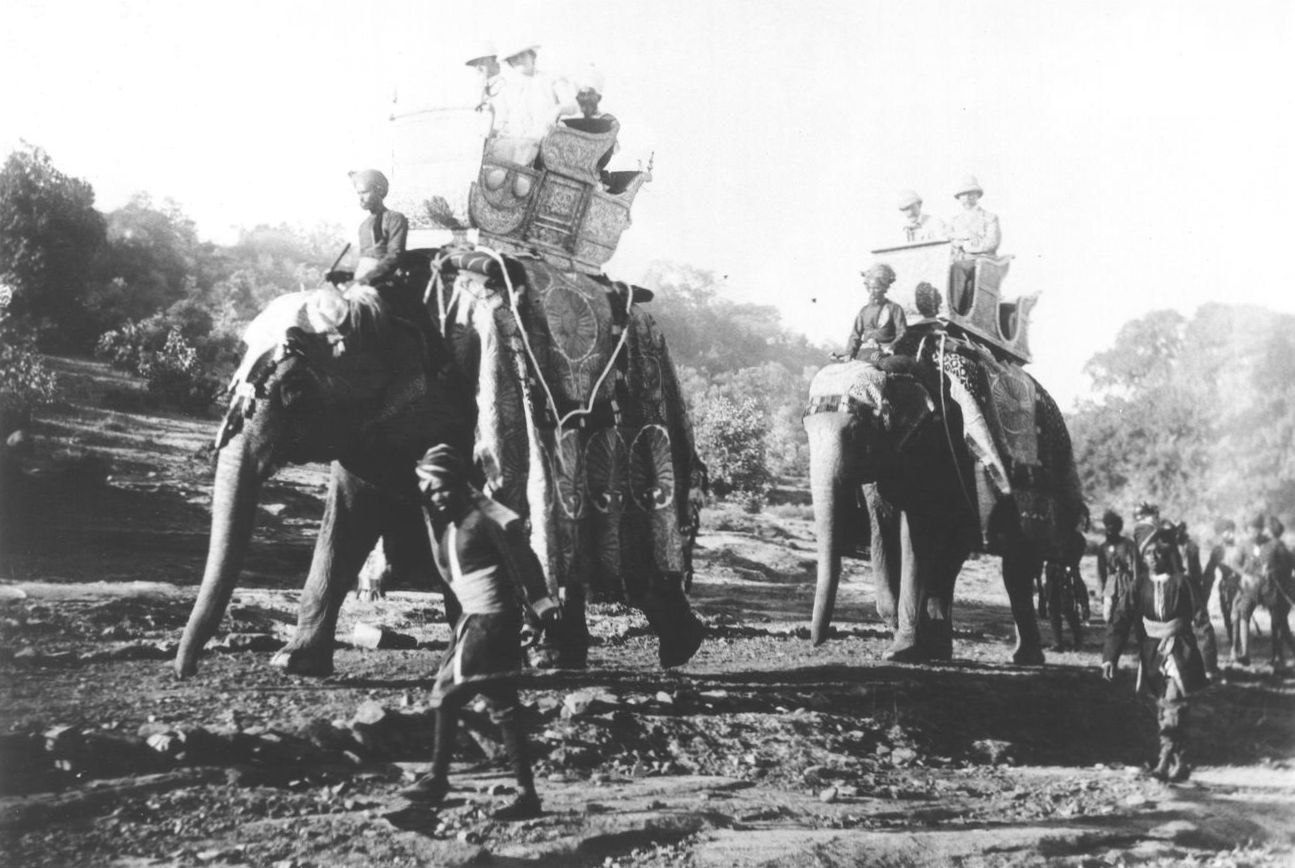 Lord Curzon-Elephant [sic] procession to Sanchi Tope.